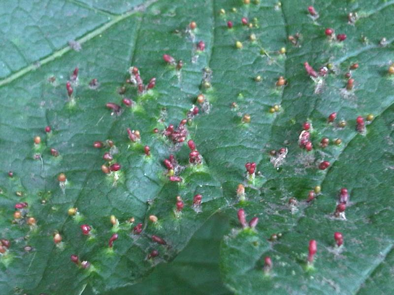 Sycamore or Sycamore Maple (Acer pseudoplatanus) leaf gall caused by the mite Aceria macrorhynchus in London, England.